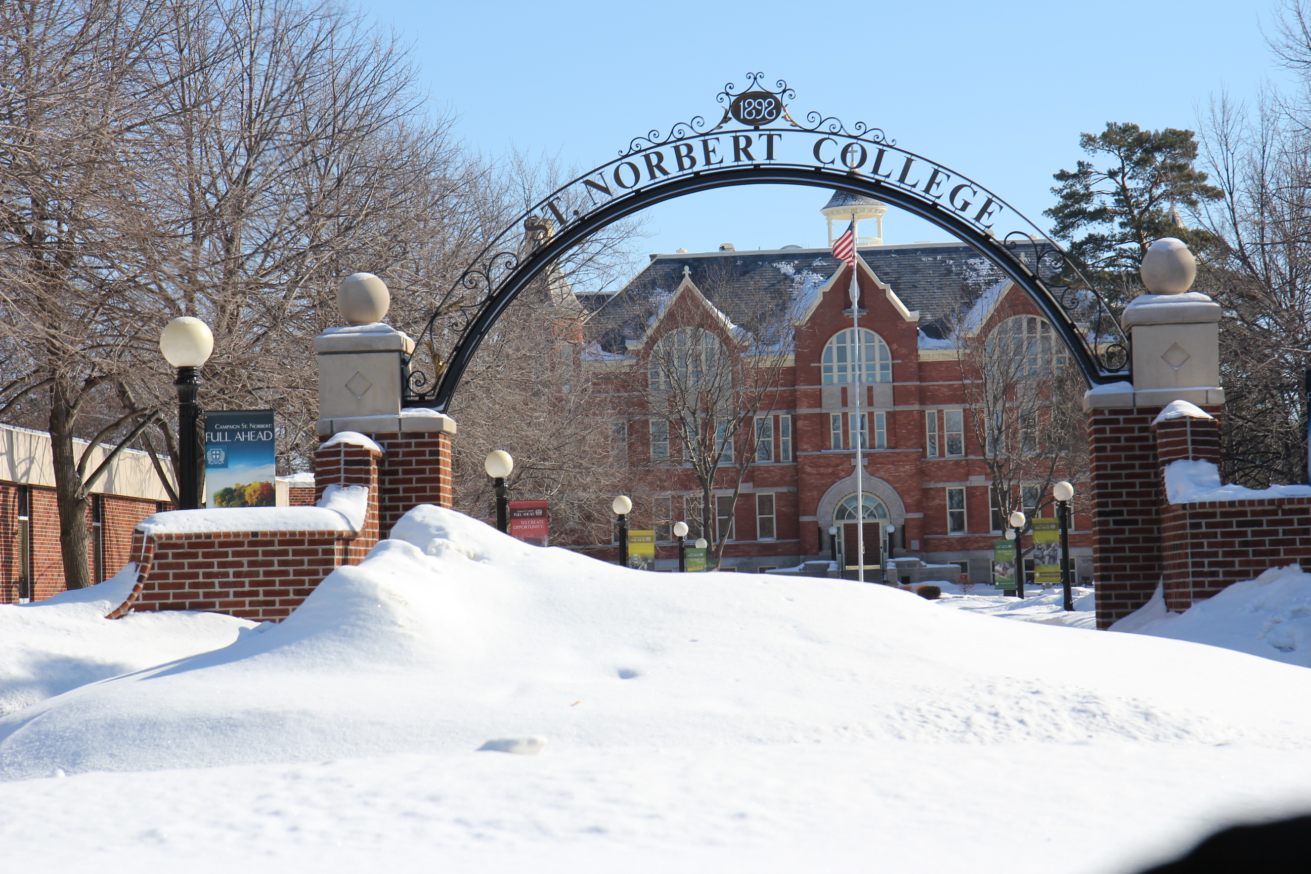 The arch surrounding the Old Main Hall at St. Norbert College in De Pere, Wisconsin.